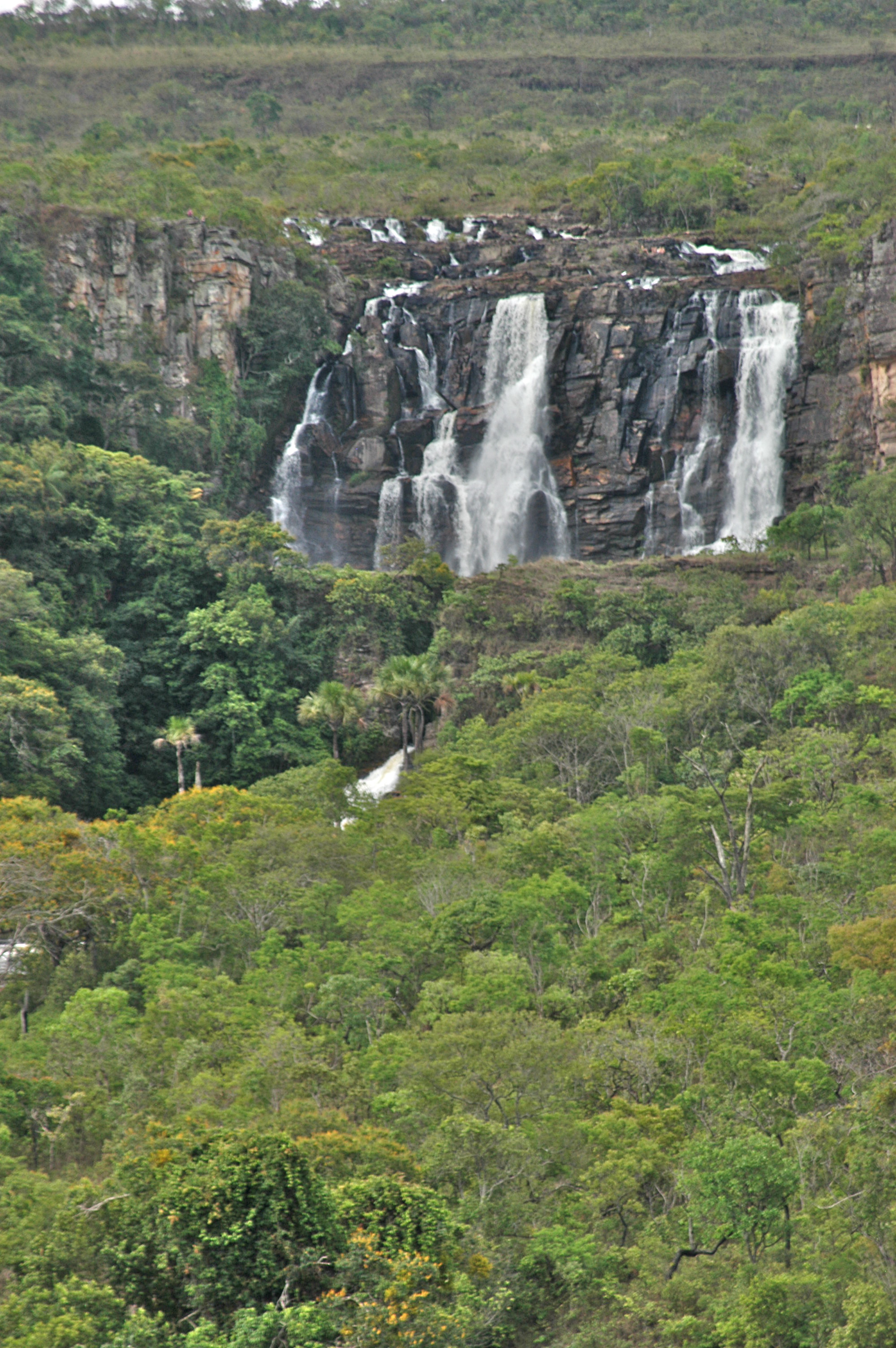 corumba fall near Corumbá de Goiás, Brazil